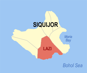 Map of Siquijor showing the location of Lazi